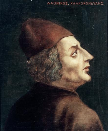 Laonikos Chalkokondyles , latinized as Laonicus Chalcondyles (Greek: Λαόνικος Χαλκοκονδύλης, from λαός "people", νικᾶν "to be victorious", but probably simply an anagram of Nikolaos; c. 1423 – 1490) was a Byzantine Greek scholar from Athens.